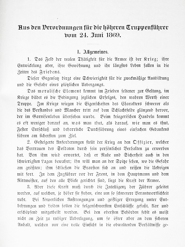 Helmuth Karl Bernhard von Moltke: Aus den Verordnungen für die höheren Truppenführer vom 24. Juni 1869 - page 1